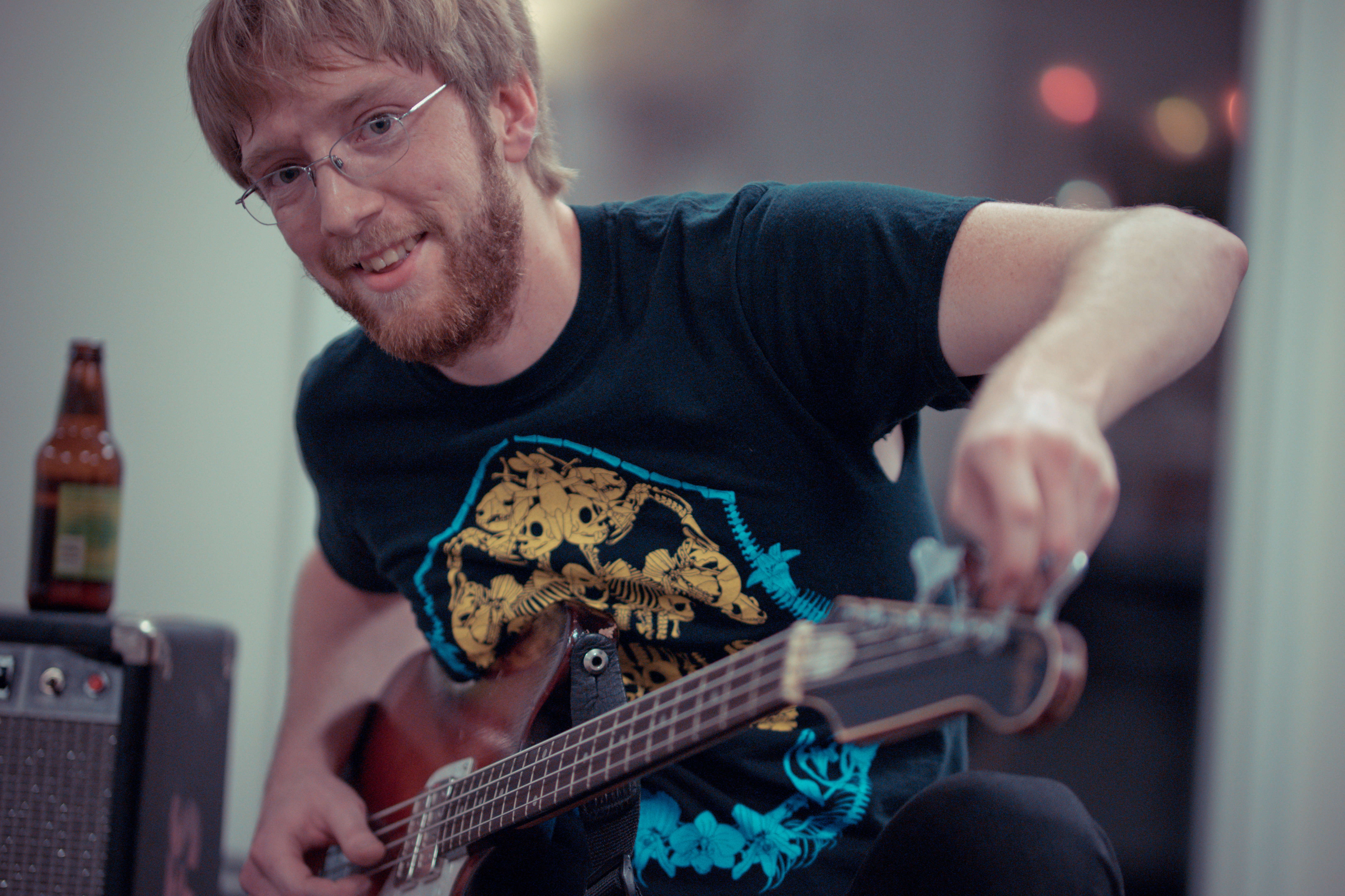 Flickr Tags: San Antonio Texas United States samsung samsung camera samsung nx1 #imagelogger #ditchthedslr beard bass guitar tuning tune music beer s-lens.